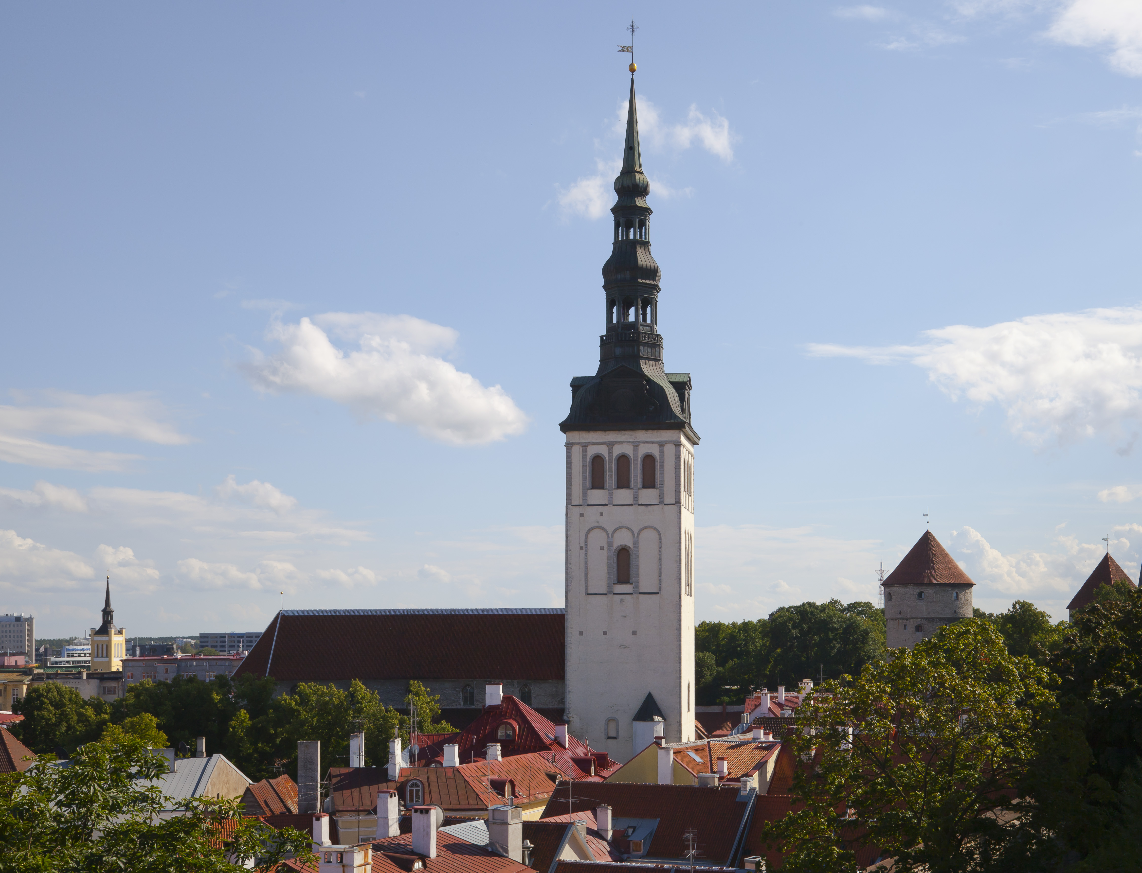 St. Nicholas' Church, view of Tallinn from Toompea, Estonia